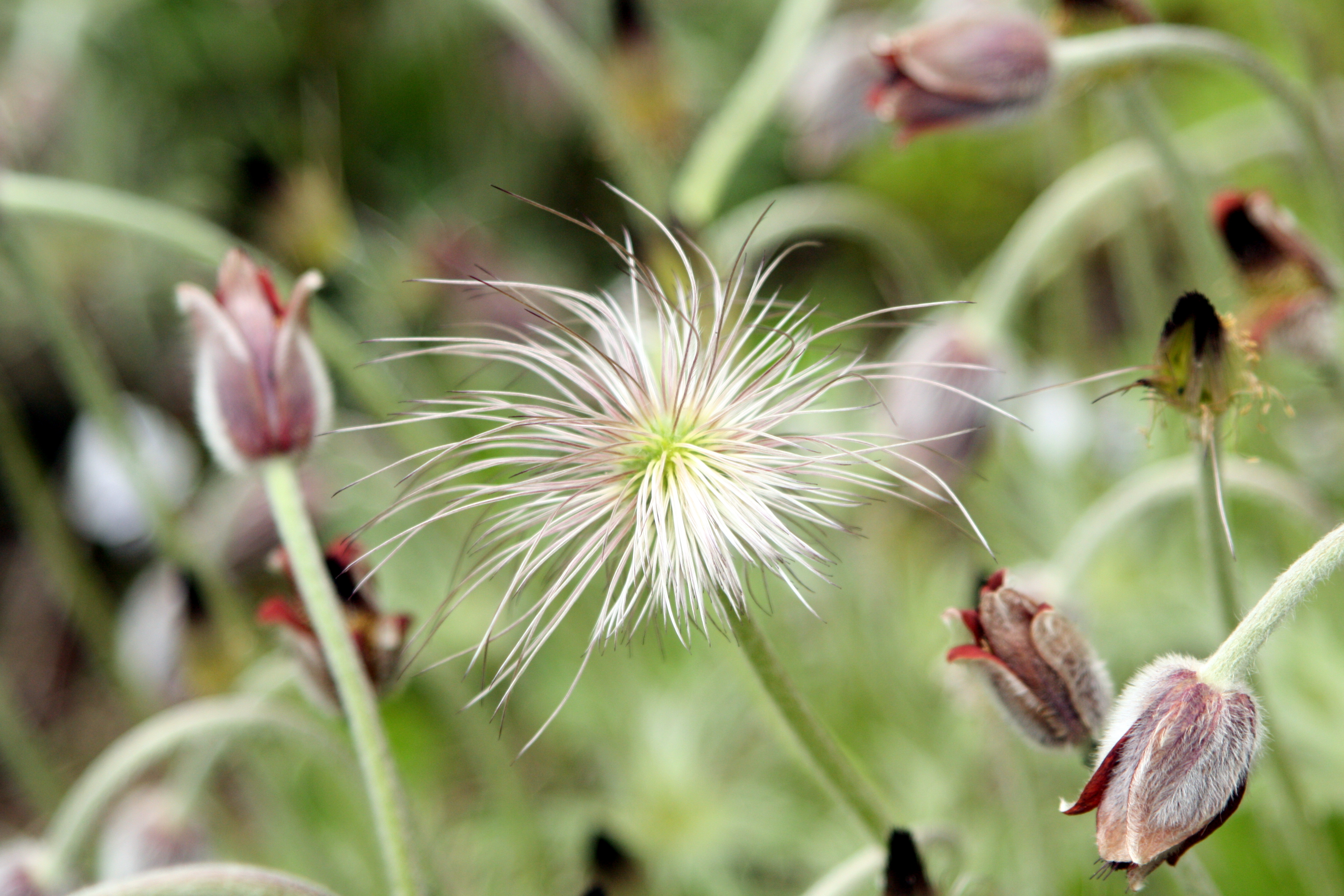 Pulsatilla koreana